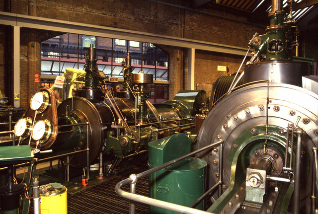 Galloways cross compount stationary steam engine. This is in Textile Mill Engine gallery, at the Museum of Science & Industry (MOSI) in Manchester. It was built in 1926 by W & J Galloway of Manchester and installed at Elm Street Mill, Burnley - " SD8433 : Elm Street Mill, Burnley. It is a cross compound extraction engine with oil hydraulic valve gear and a uniflow low-pressure cylinder